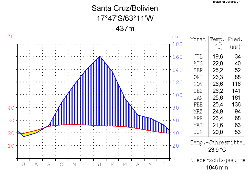 climate chart in the format by Walther and Lieth, metric, °Celsisus and millimeters, made with Geoklima 2.1